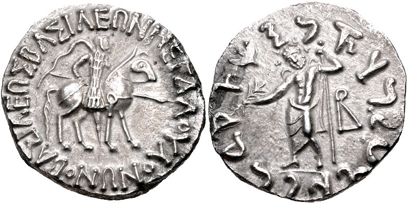 Vonones Indo-Scythian